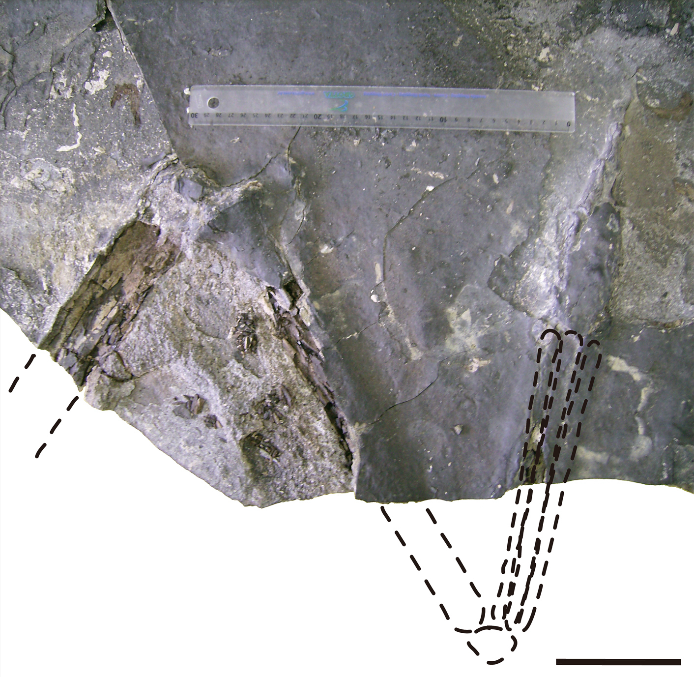 The holotype (MPSC R 2089) of Aratasaurus museunacionali gen. et sp. nov., showing the femur and tibia before preparation. Scale bar: 100 mm.